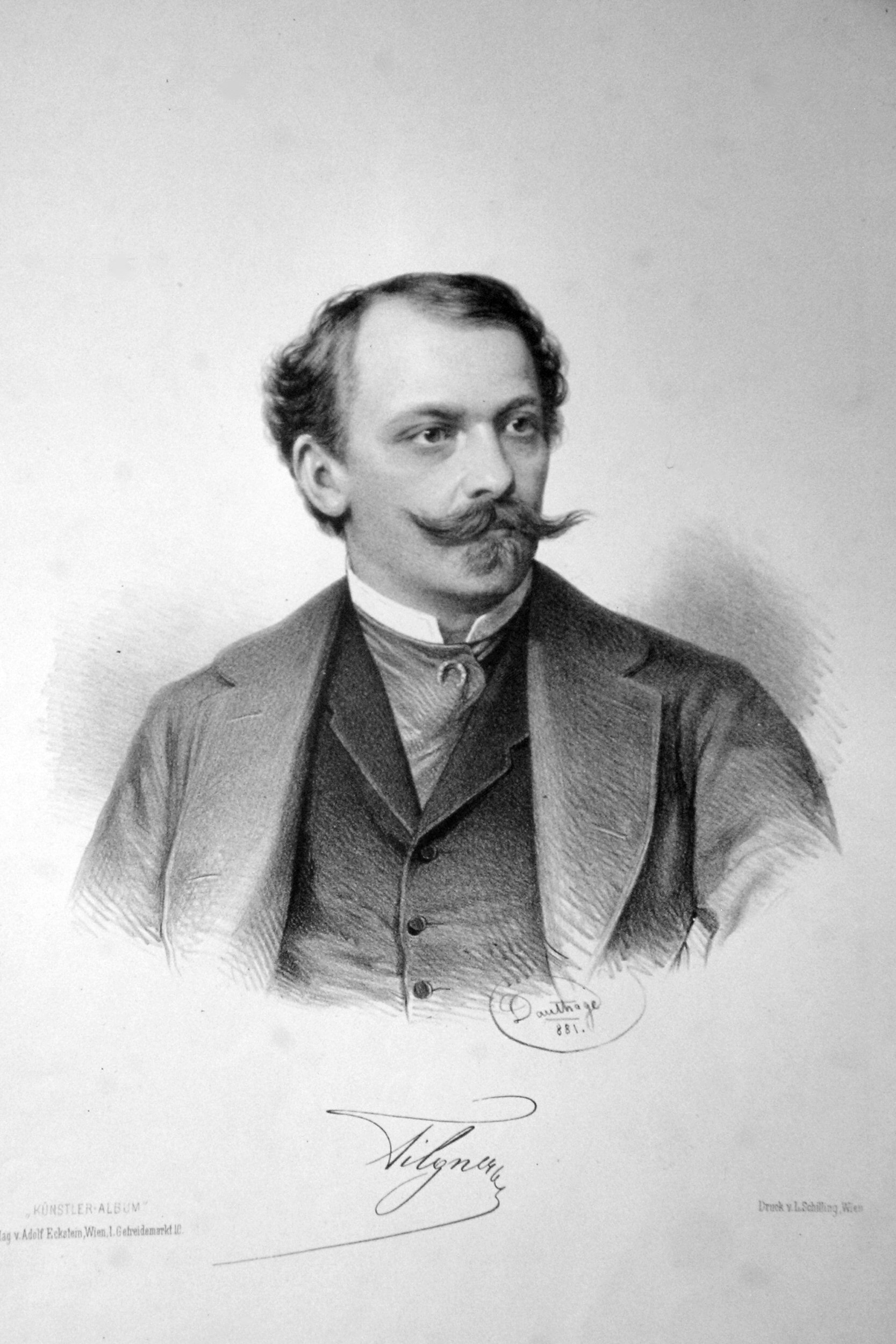 Viktor Tilgner (1844-1896) Austrian-Slovak Sculptor Lithograph by Adolf Dauthage, 1881 From "Künstler-Album", published by A. Eckstein, Vienna